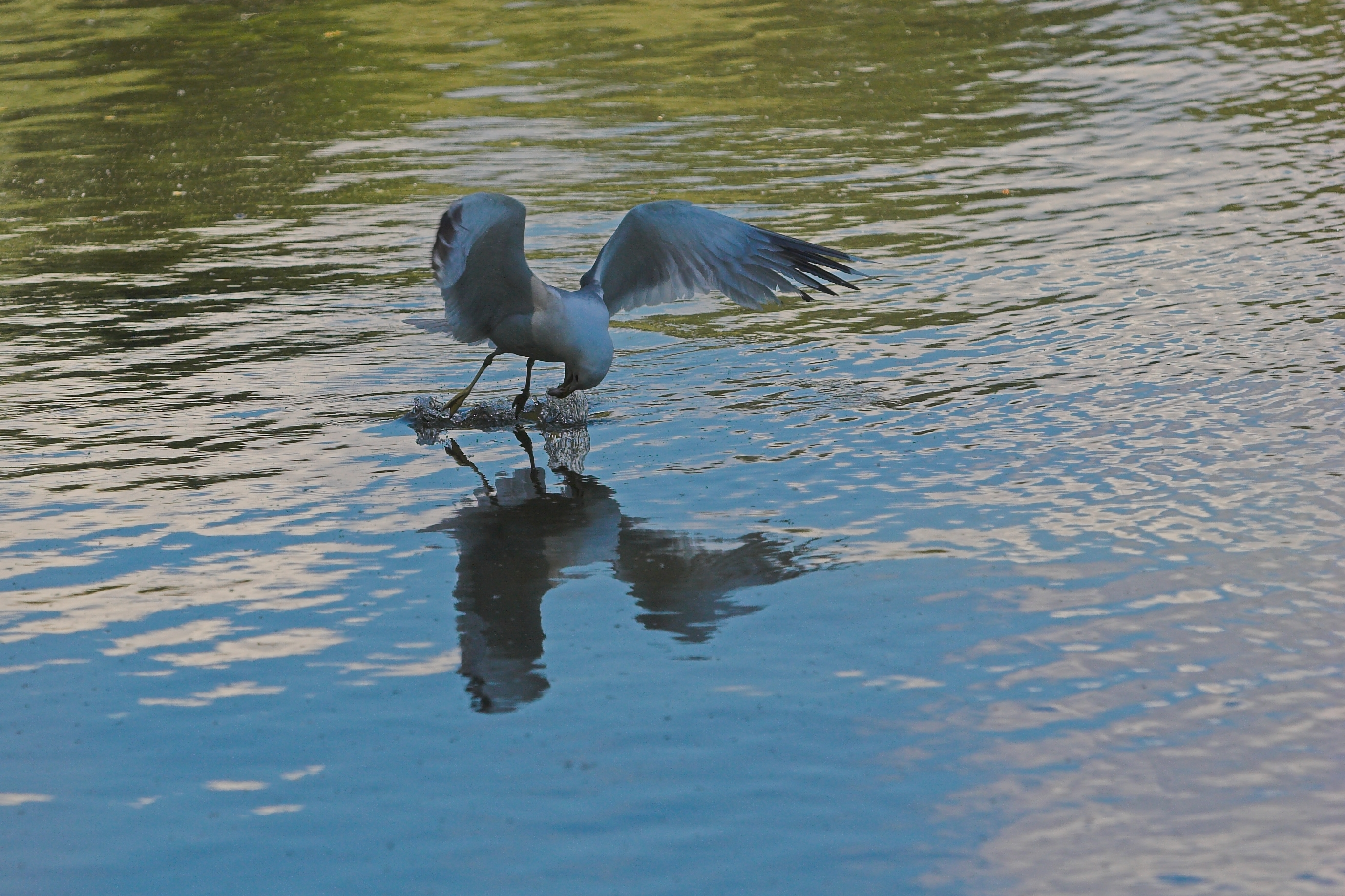 I was watching by a certain bay in Helsinki, Finland, where I know the birds tend to gather. After about one hour of taking photos, I noticed that the birds in certain shadowy part of the bay where making swoops and diving into the water. I decided to move to that part of the bay. This is a five part set of Larus Canus fishing. The files are LarusFishingA-E. Larus Canus fishing (1) Larus Canus fishing (2) Larus Canus fishing (3) Larus Canus fishing (4) Larus Canus fishing (5) If you wonder why the last two frames are badly framed, the reason is quite human. My leg started to sink in the mud and I had some difficulties of holding my balance.